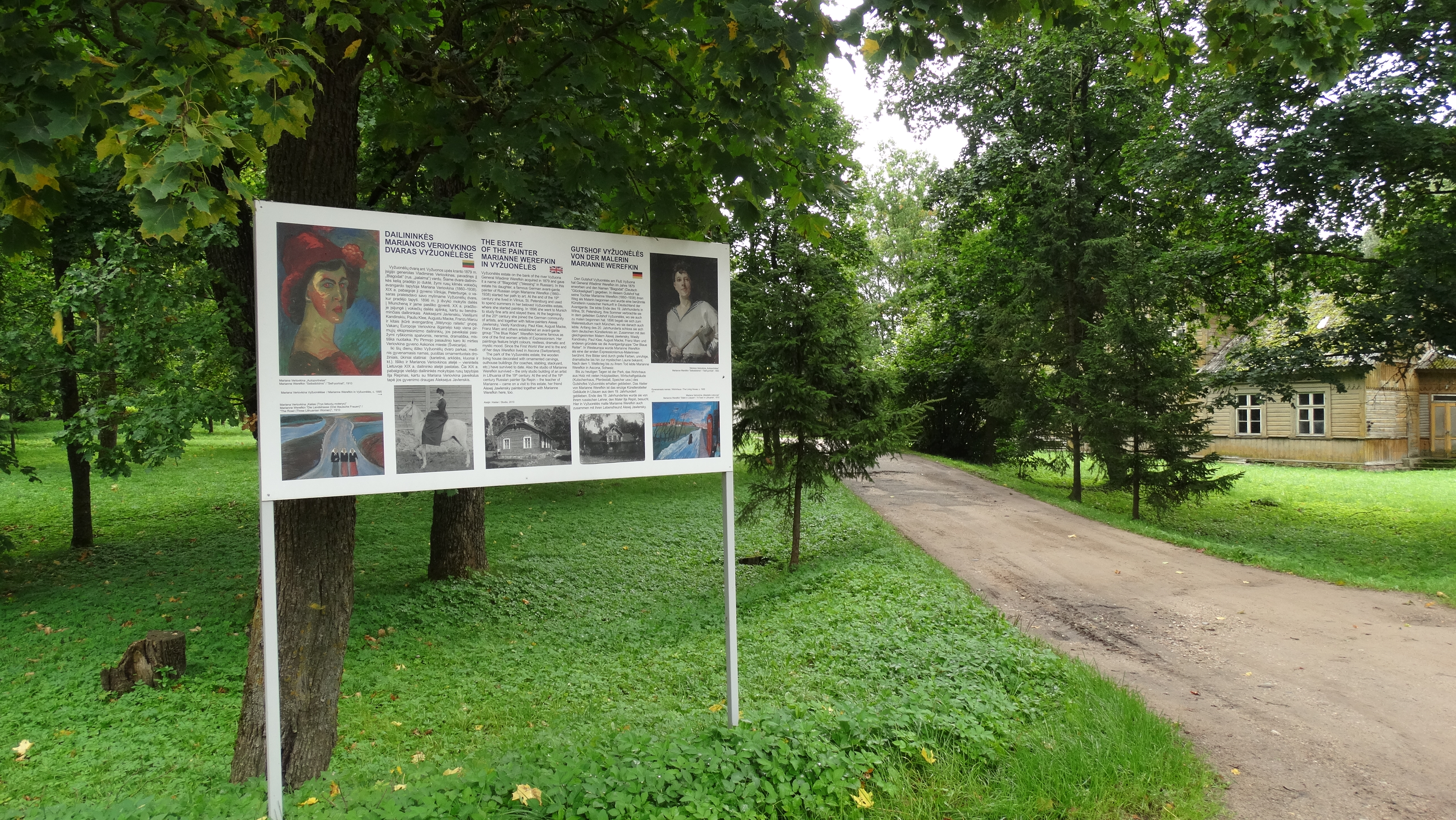 Vyžuonėlės manor, information board about Marianne von Werefkin, Utena district, Lithuania